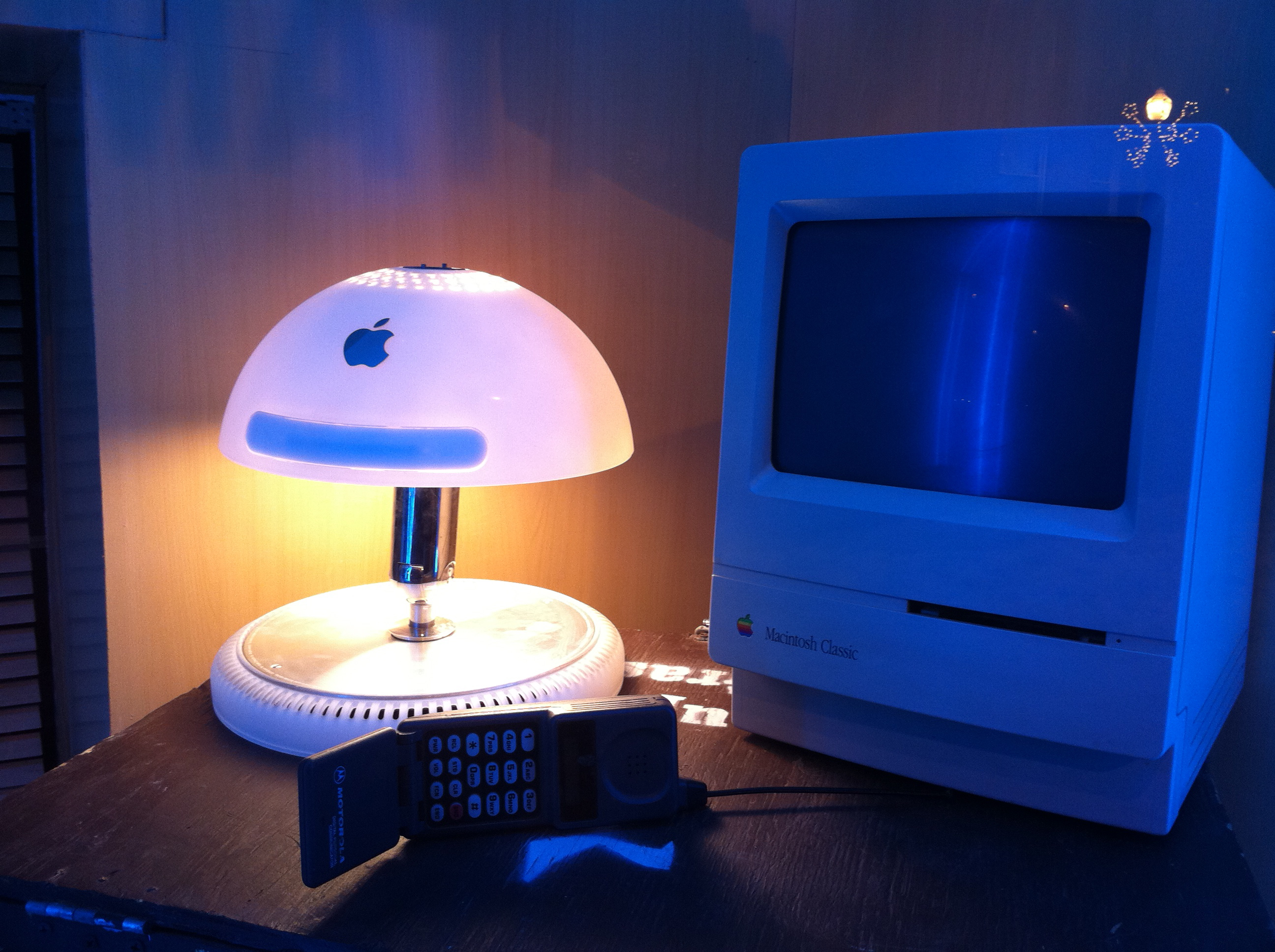 image of a repurposed Imac